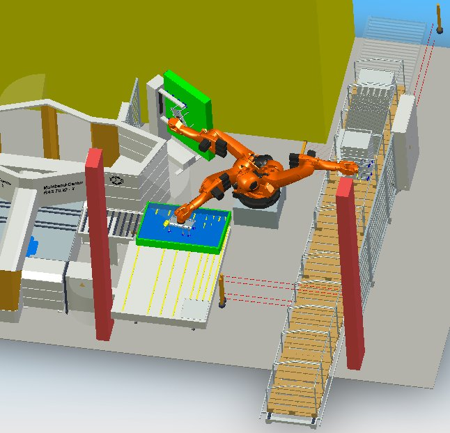 Unload of folded parts with a robot